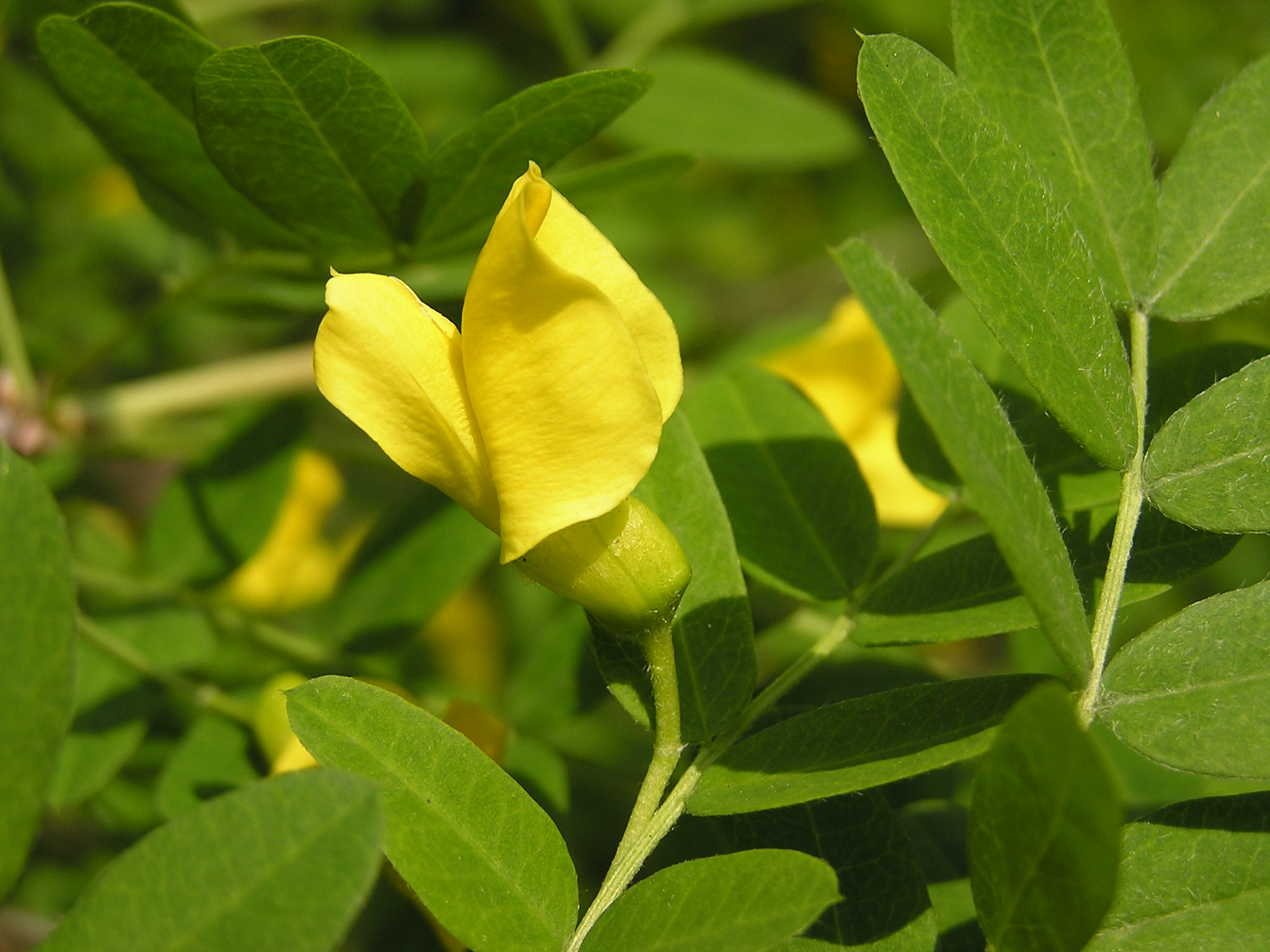 Flower of Caragana arborescens